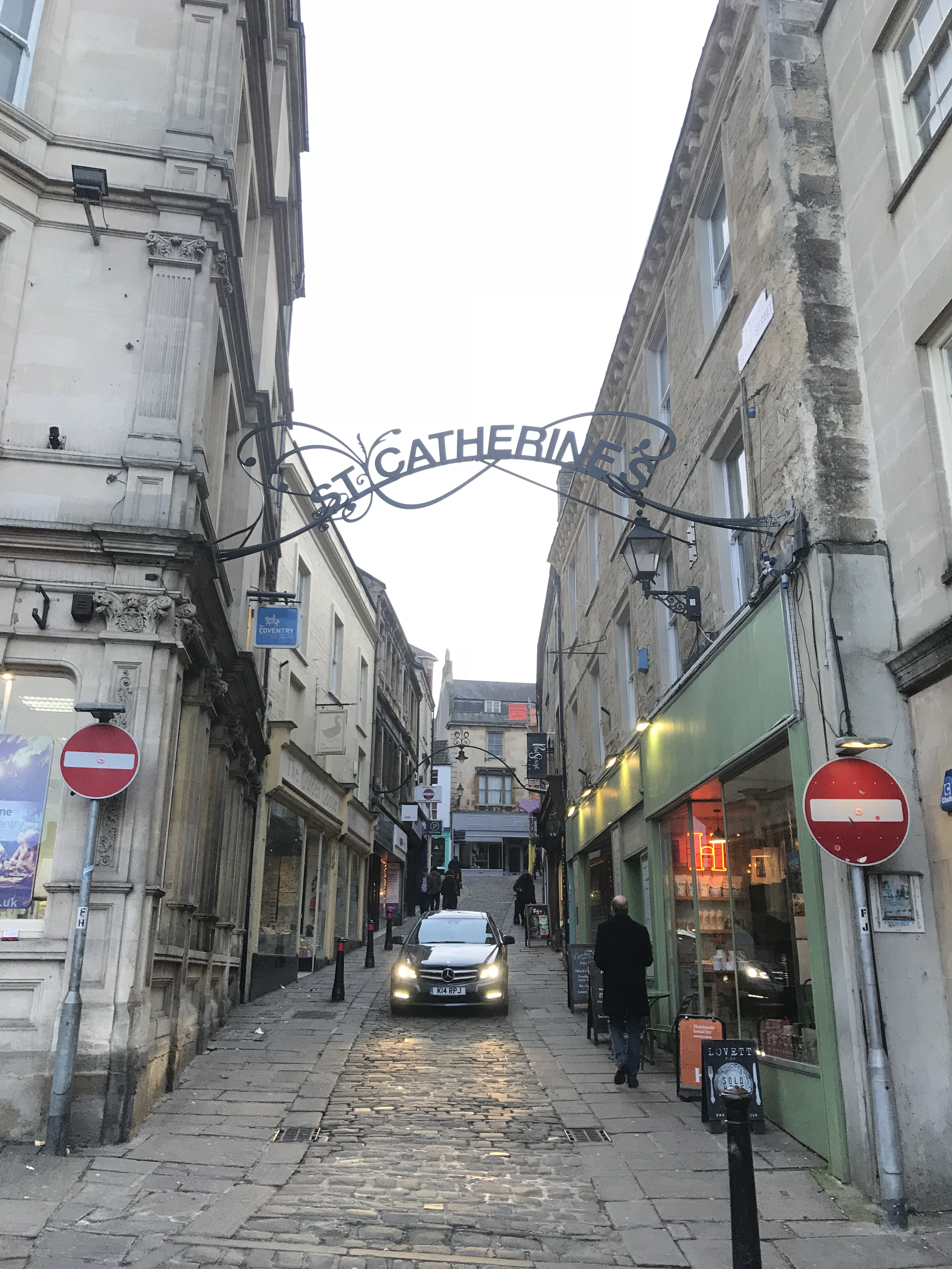 Stony Street, Frome, leading up from the Market Place to Catherine Hill